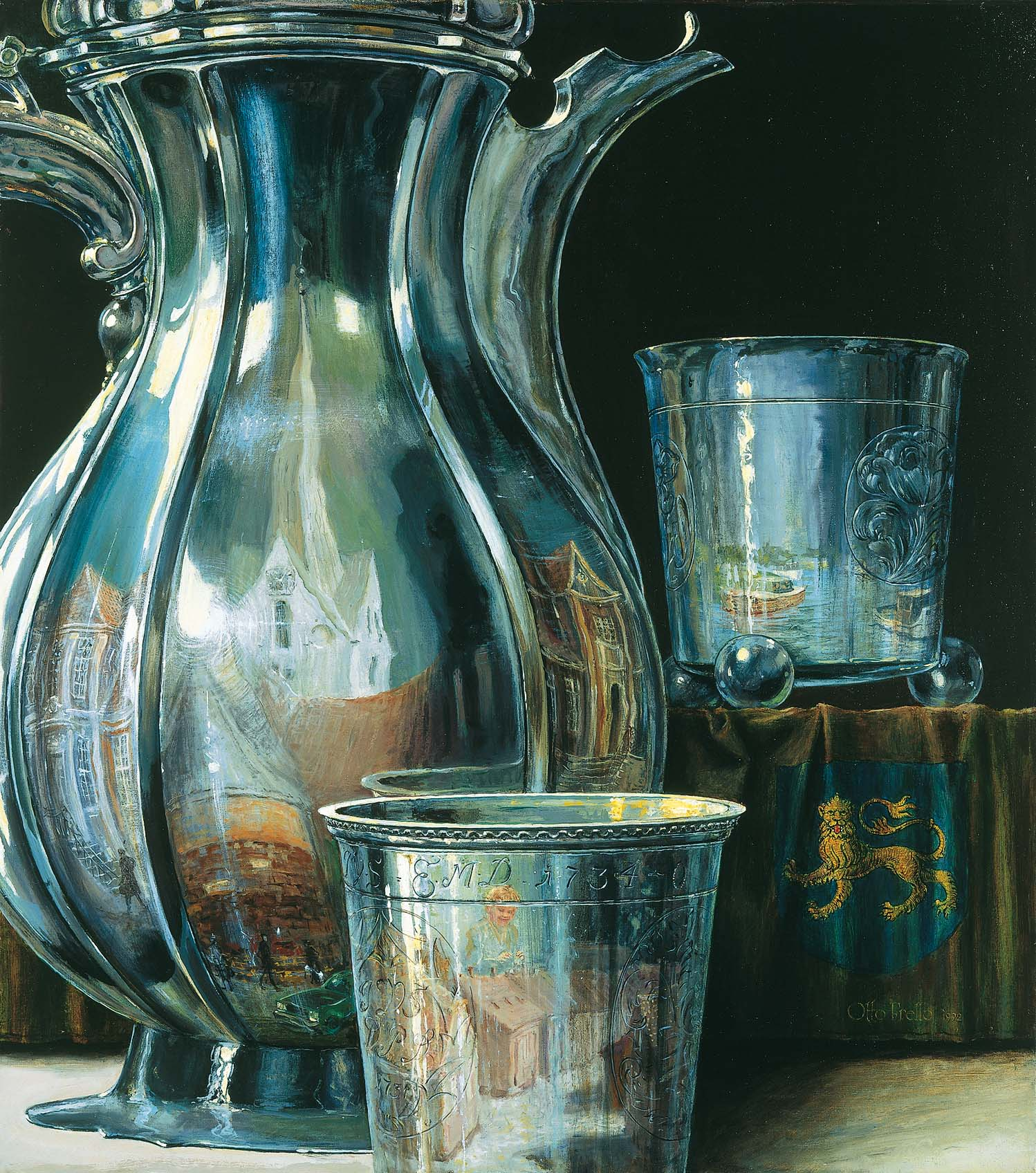 The painting "Spejlinger/Reflections" by Otto William Frello